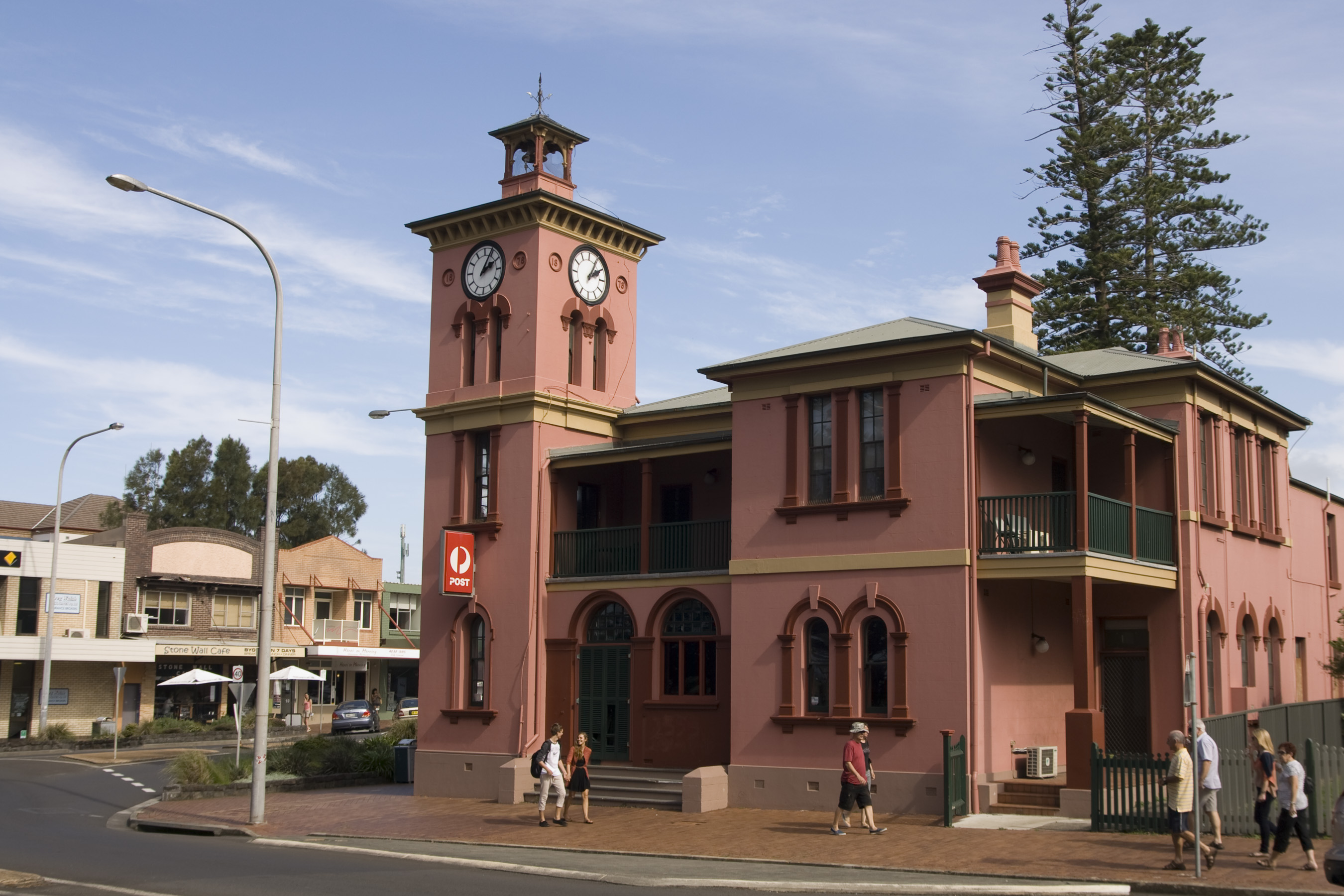 Post office in Kiama, New South Wales